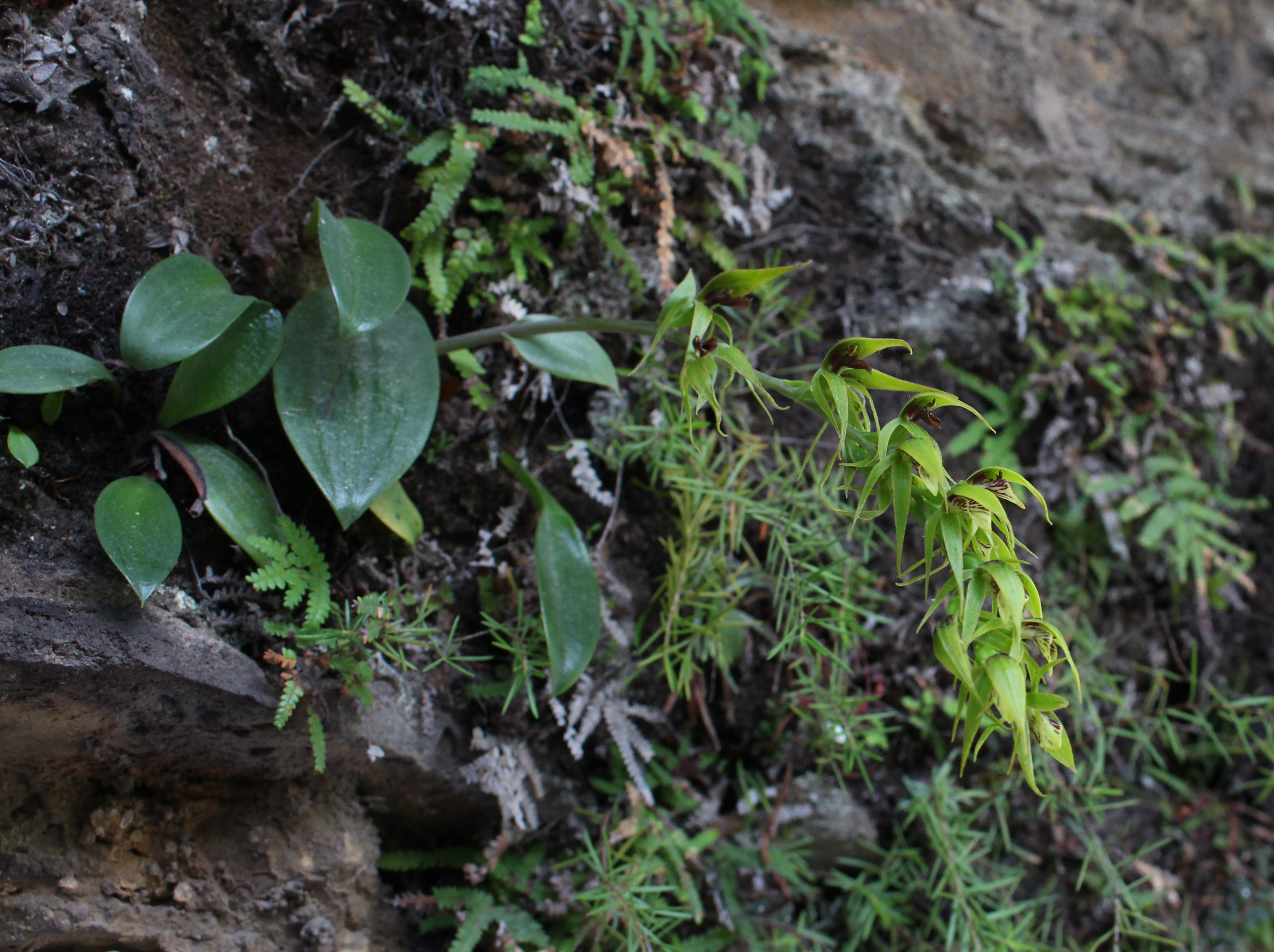 Rimacola elliptica orchid growing in the Wentworth Falls area, Blue Mountains Australia